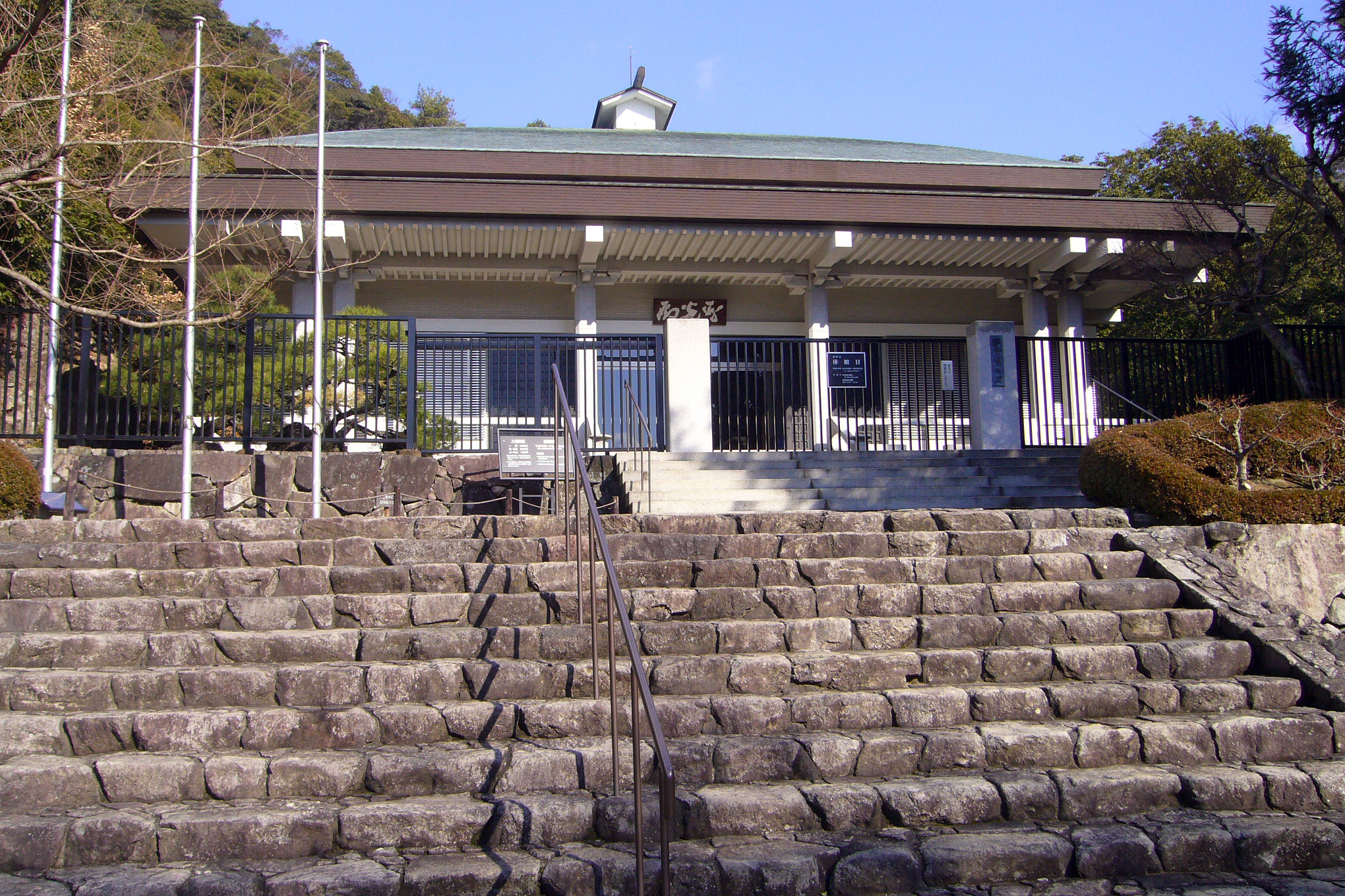 Tessai Museum of Art in Takarazuka, Hyogo prefecture, Japan